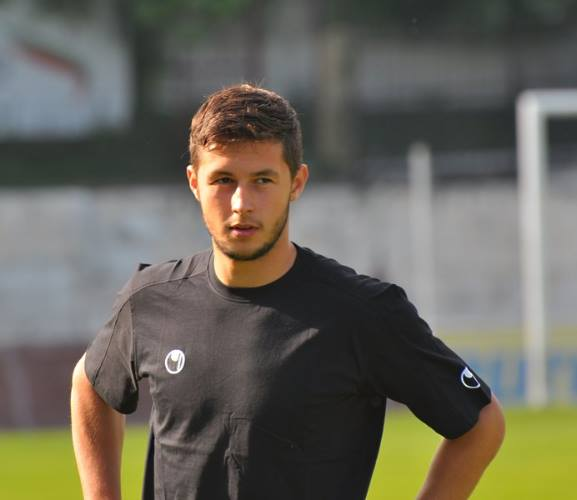 Football Player